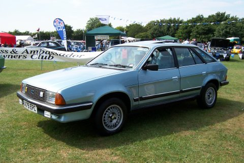 Austin Ambassador front. Kindly released under GFDL by Kevin Davis of the Austin Princess Owners club